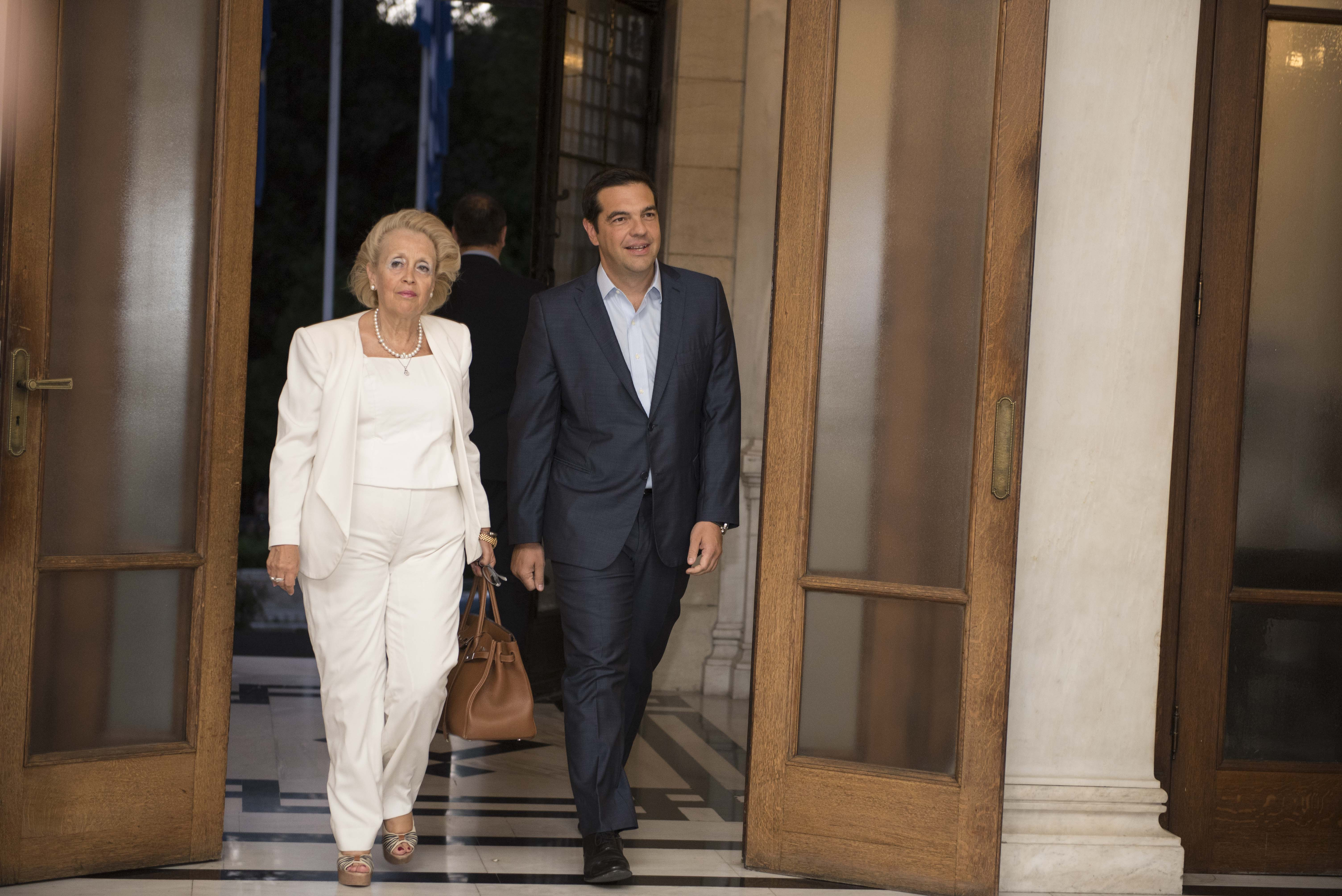 Vassiliki Thanou and Aléxis Tsípras.